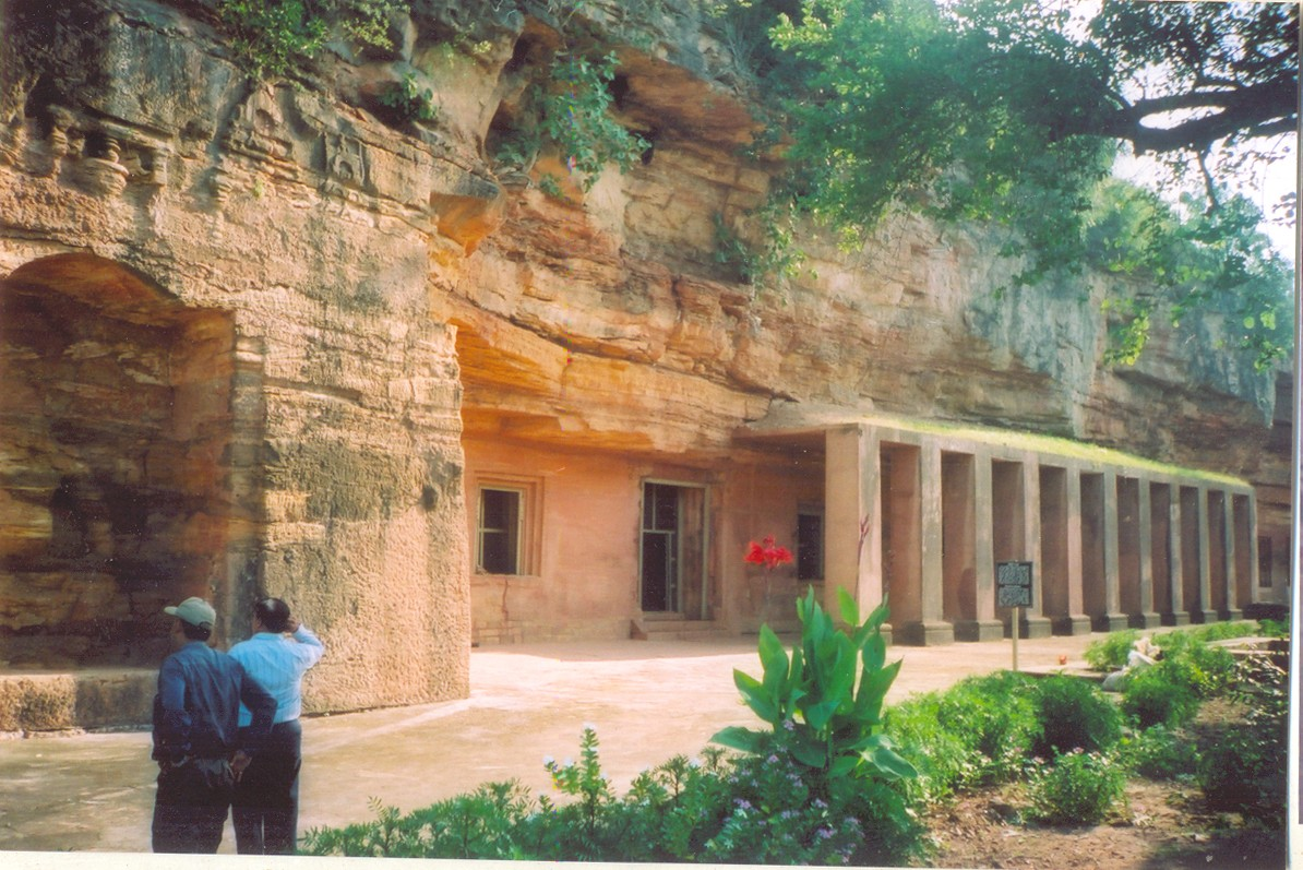 Bagh caves in Dhar, Madhya Pradesh